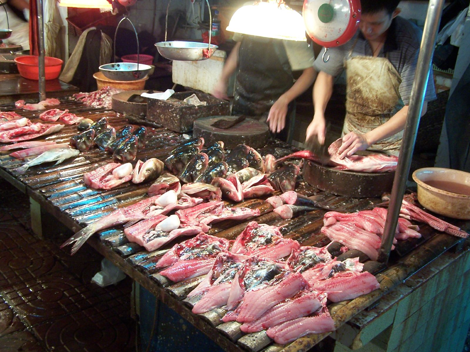 Dead fish 粵語: 廣州街市魚檔，賣淡水魚